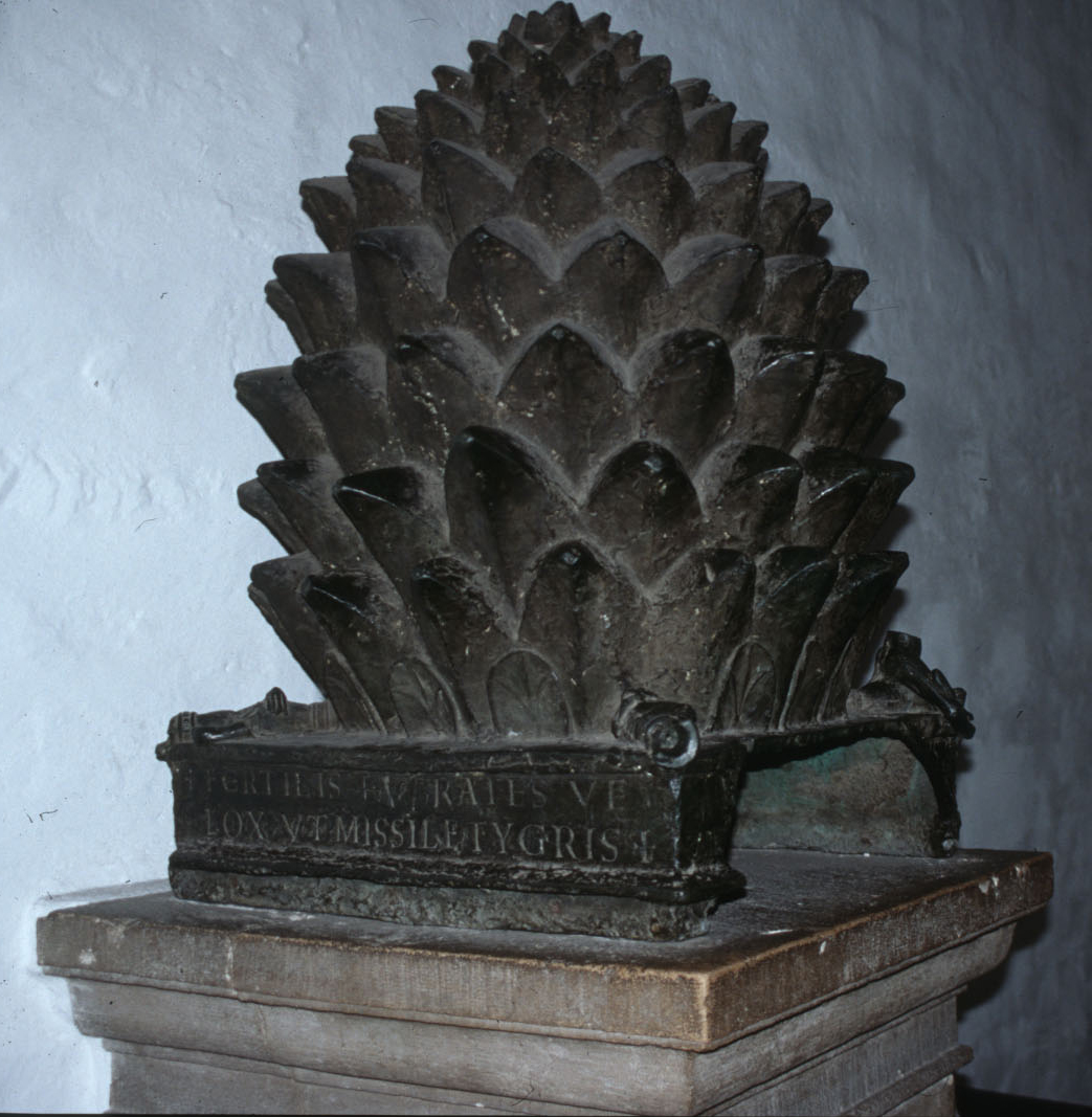 Bronze pine cone in the narthex of the cathedral at Aachen. This bronze sculpture may have been brought to Aachen from Italy at the time of Charlemagne, or it may have been cast in Germany as late as ca. 1000. It was inspired by the pine cone that once stood in the courtyard of Old St. Peter's Basilica and is now in the Cortile della pigna of the Vatican Museums.